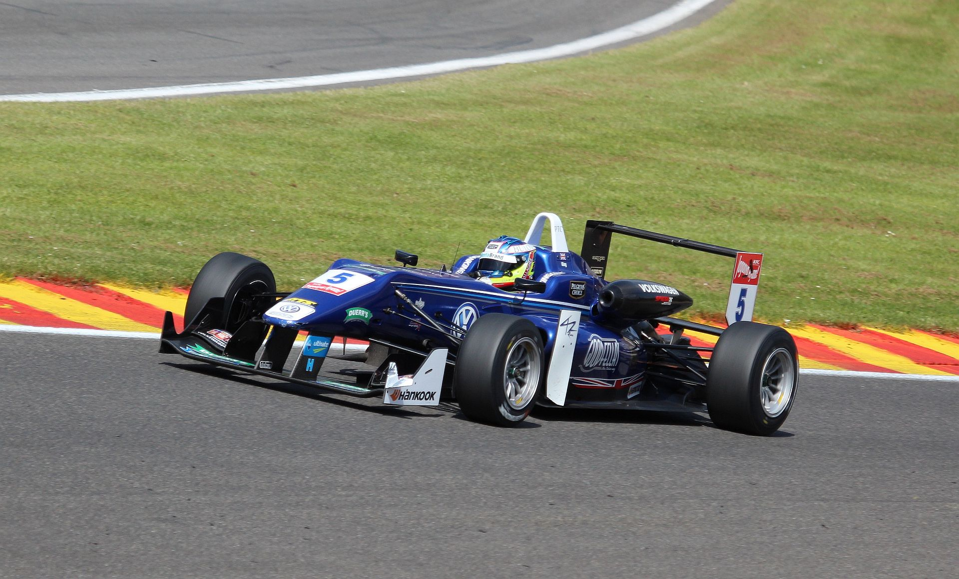 Jordan King at Spa in 2014, European Formula 3 Championship